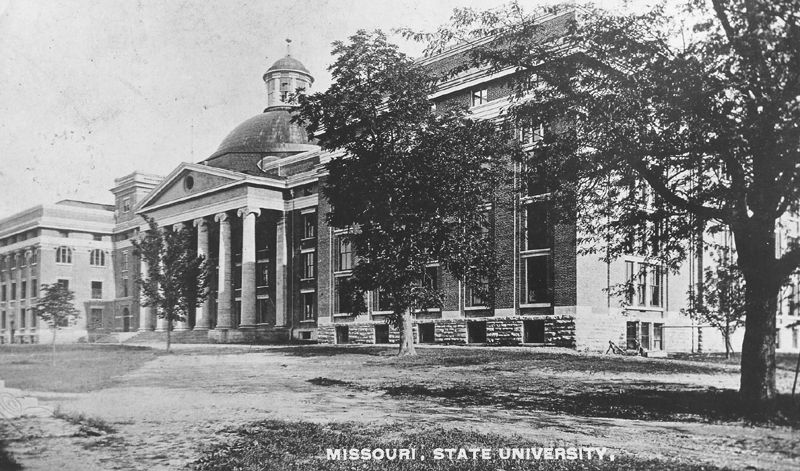 Academic Hall at the University of Missouri, after the wing additions and shortly before the fire of 1892.